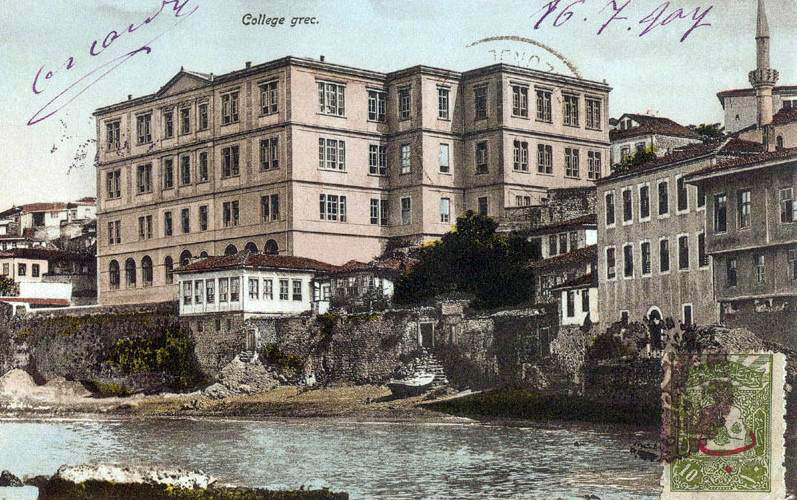 The Phontisterion of Trapezous, Greek school in Trapzon, Turkey.